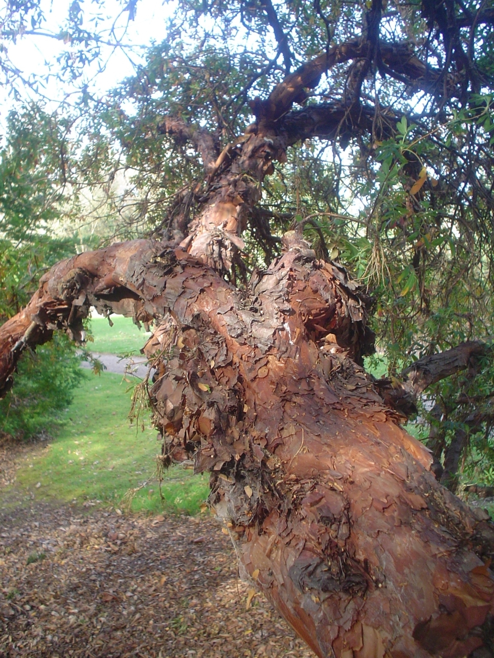 Image of tree Polylepis australis, of Argentina